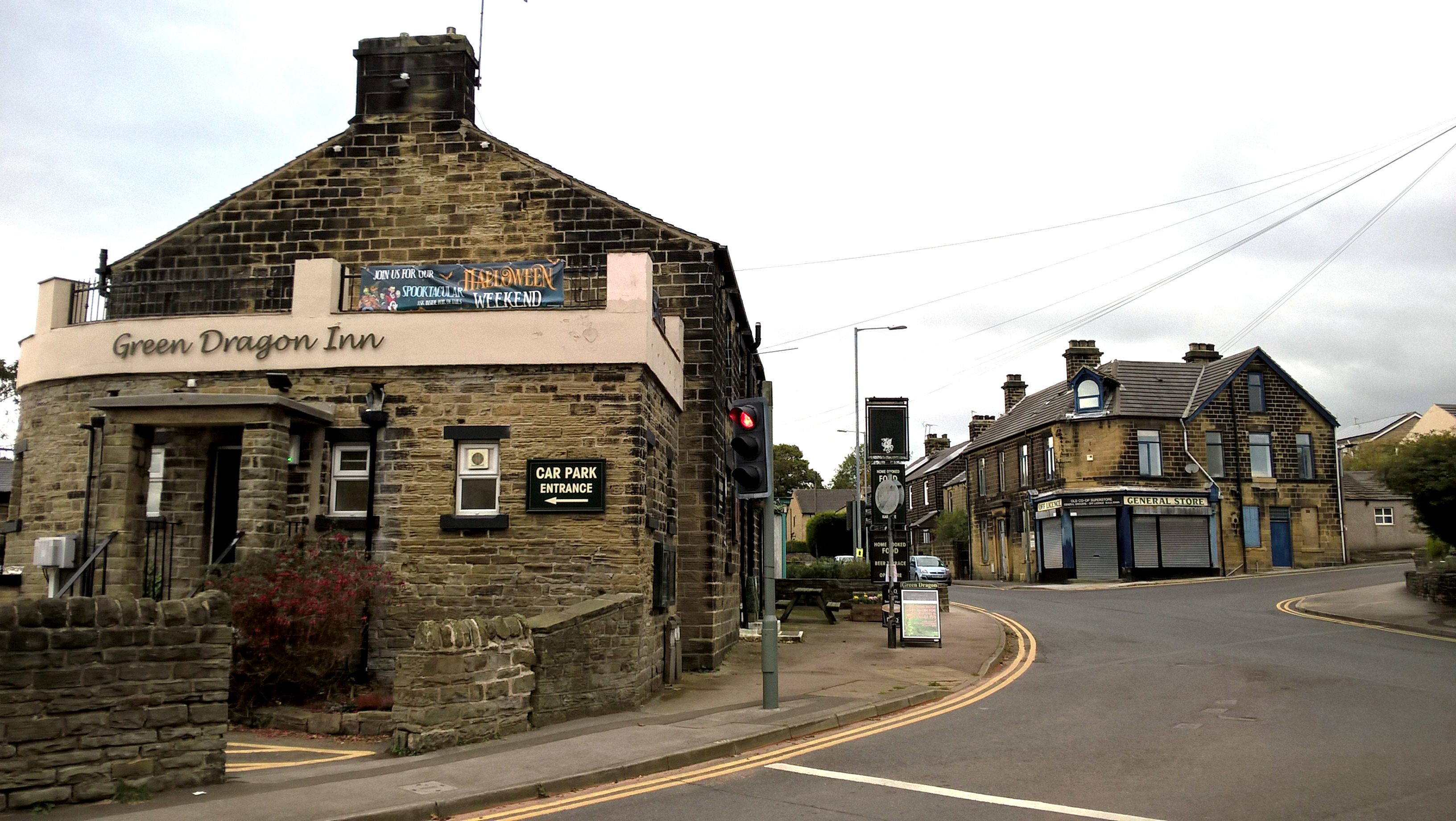 Crossroads in Thurgoland with the Green Dragon public house, the General Store. Looking NW down the Halifax Road A629, with Cote Lane to left and Smithy Hill on the right.